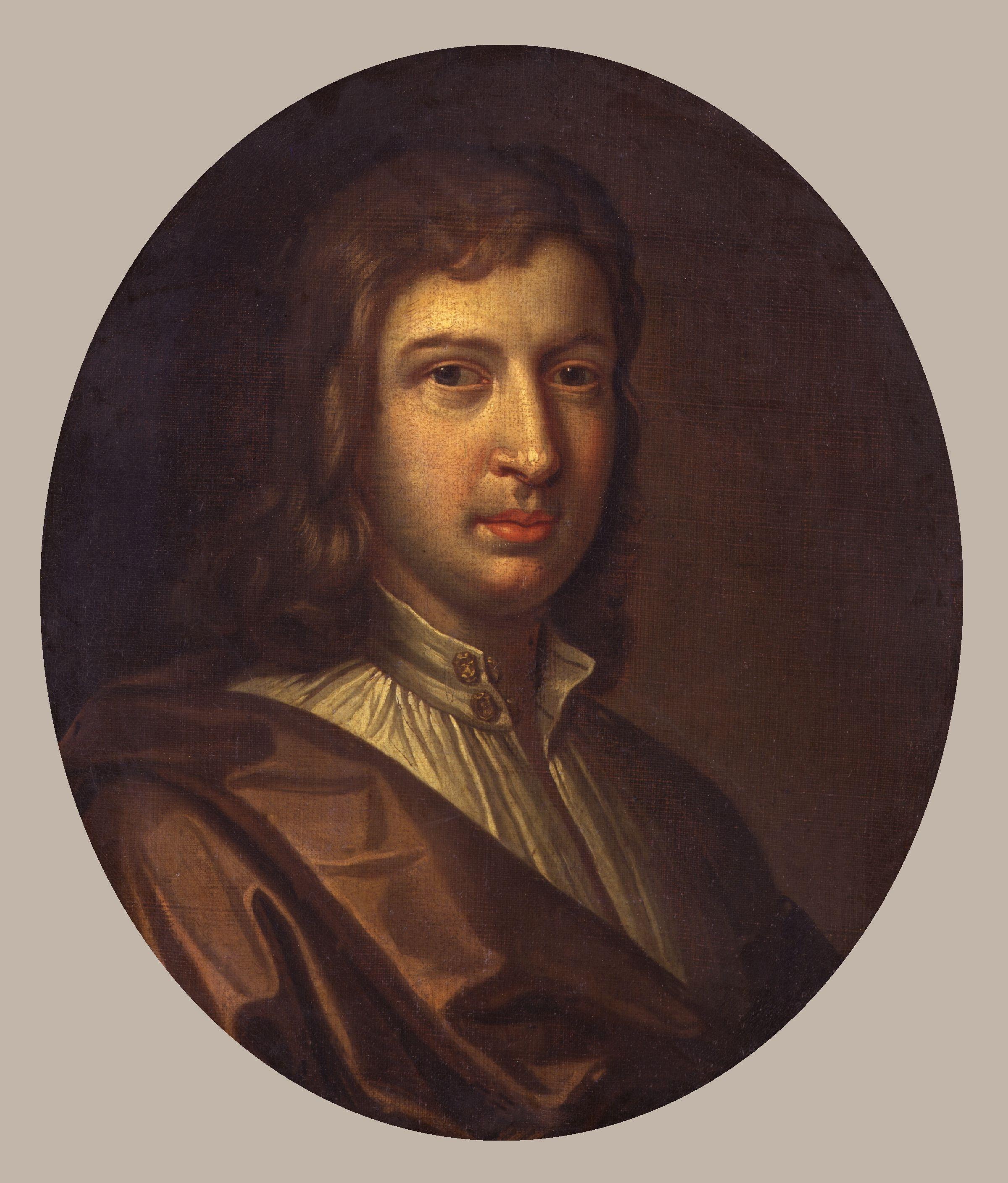 John Philips, by unknown artist. All images in this batch are listed as "unknown author" by the NPG, who is diligent in researching authors, and was donated to the NPG before 1939 according to their website.